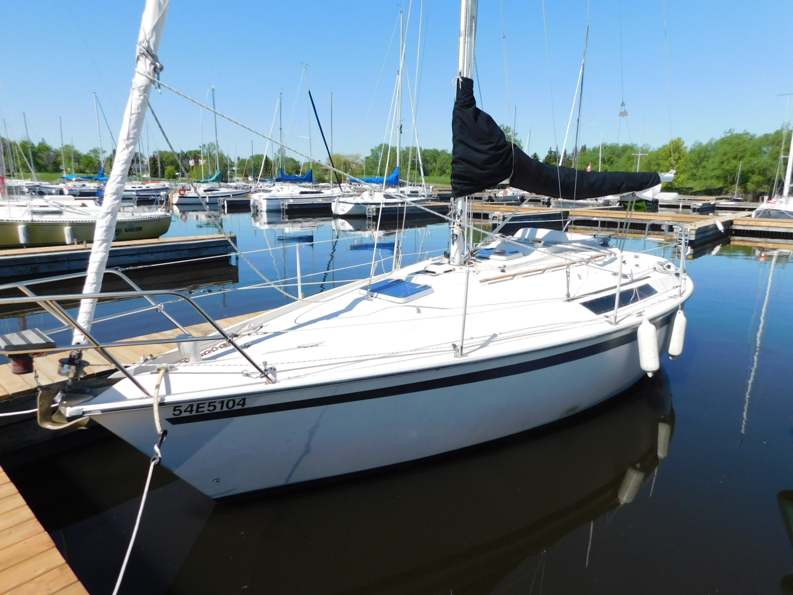 An Edel 820 sailboat named Joya II.